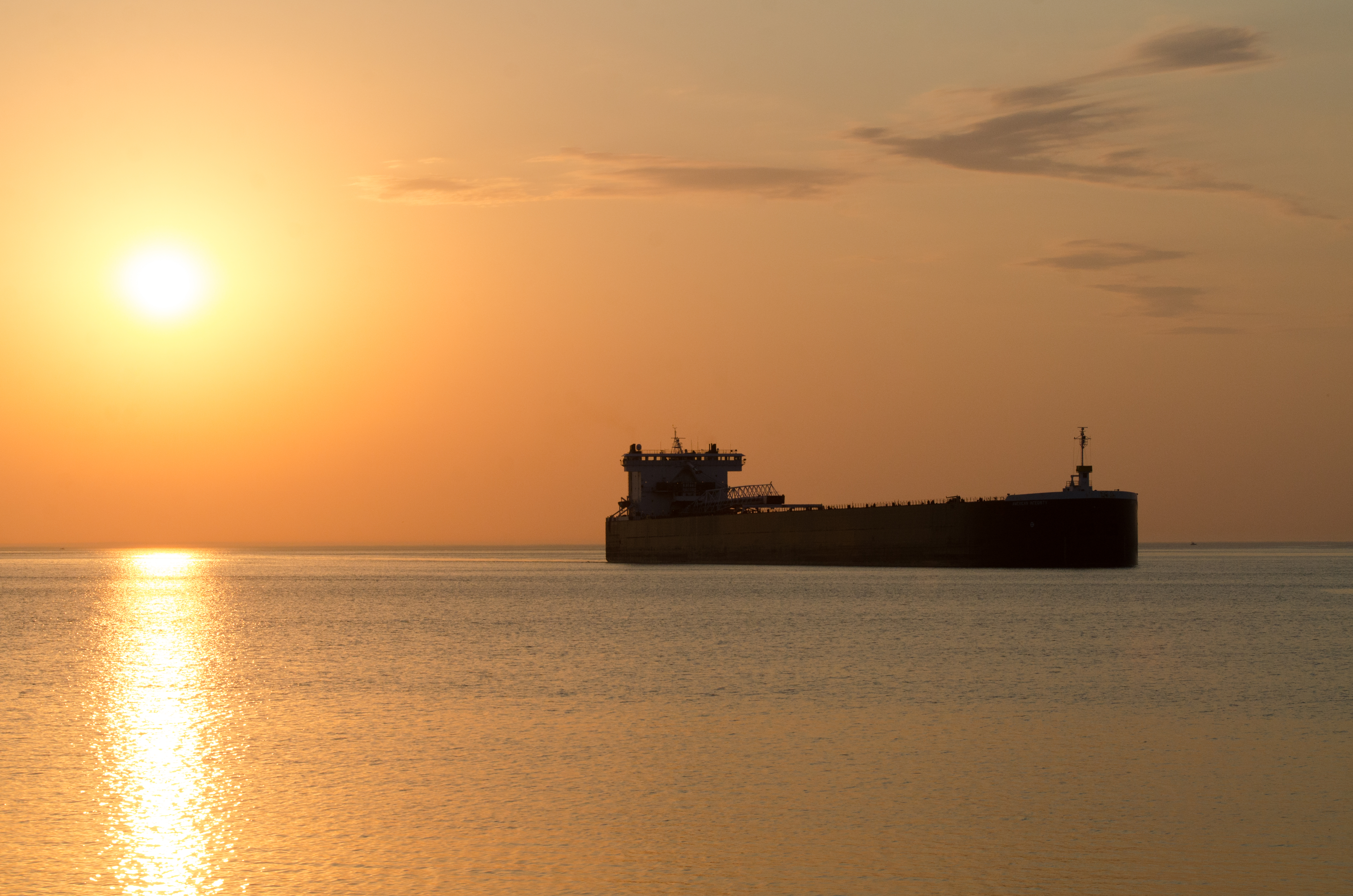 I got up early and captured the sunrise. As a bonus, the MV American Integrity, a 1000 foot bulk cargo ship, appeared on the horizon as it approached Duluth. I had a great time working it in to my sunrise shots.